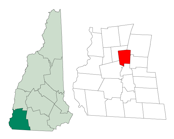 Map of a municipality in Cheshire County, New Hampshire